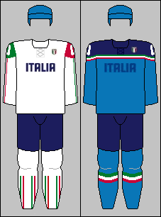 The home and away jerseys of the Italian national ice hockey team used at the 2014 IIHF World Championship.